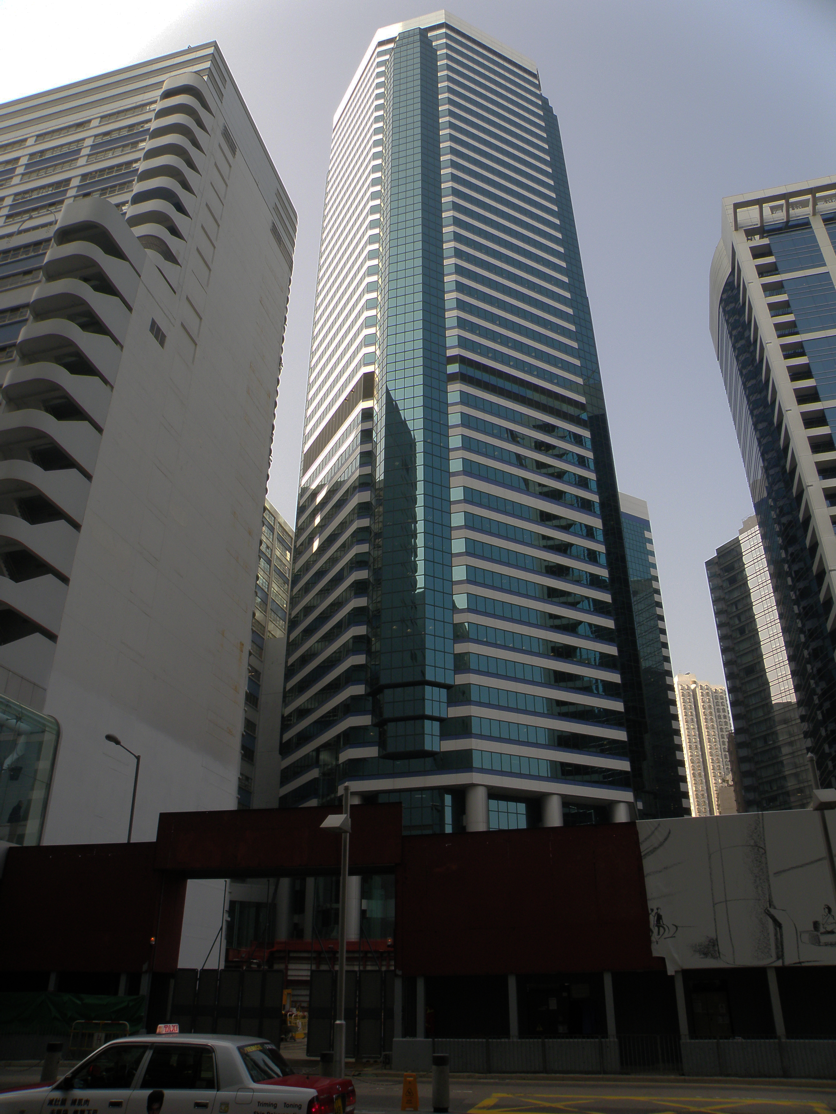 PCCW Tower in Quarry Bay, Hong Kong.